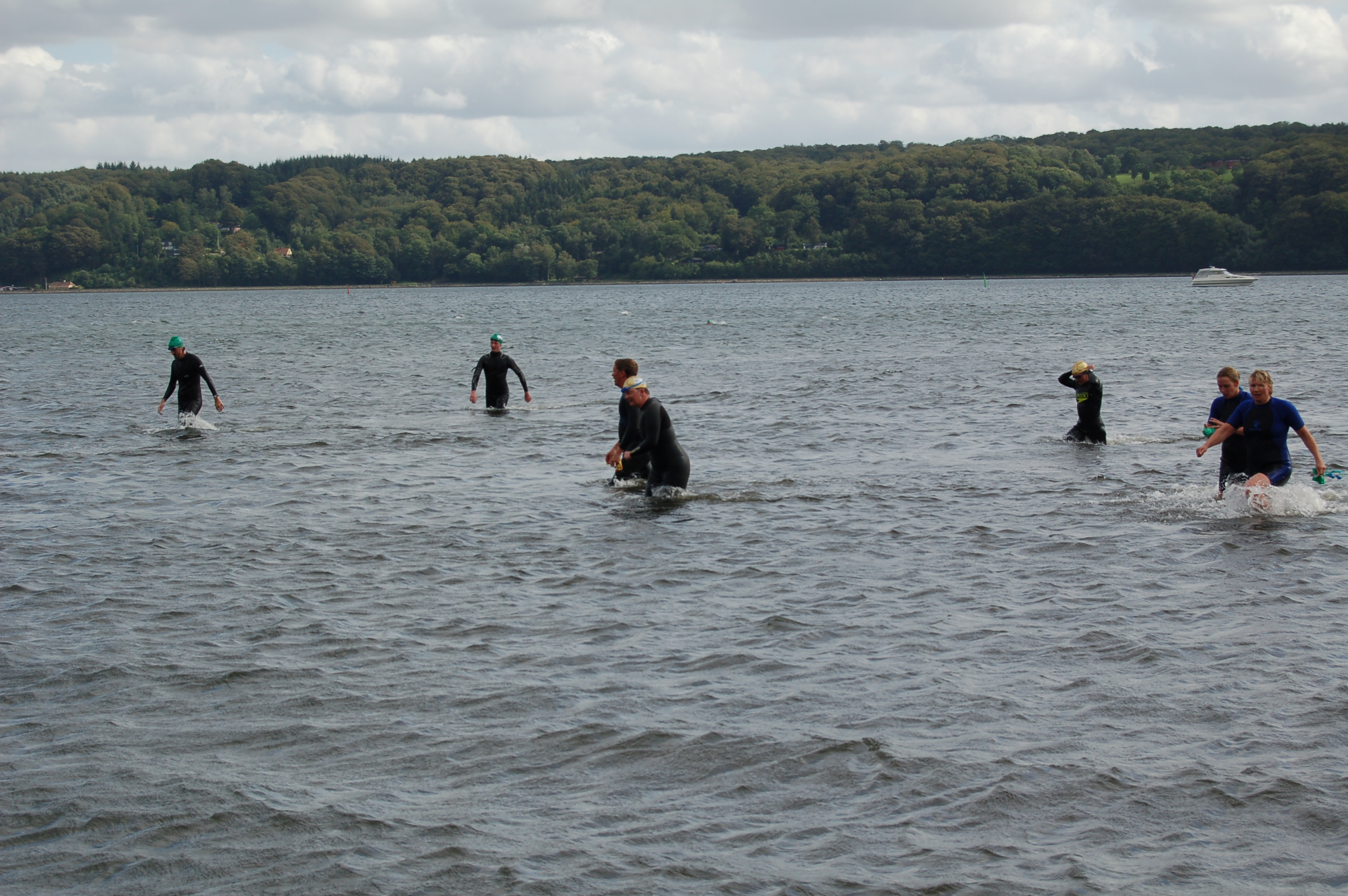 Open water swimmers finishing at Vejle Fjordsvøm 2009, Vejle, Denmark.